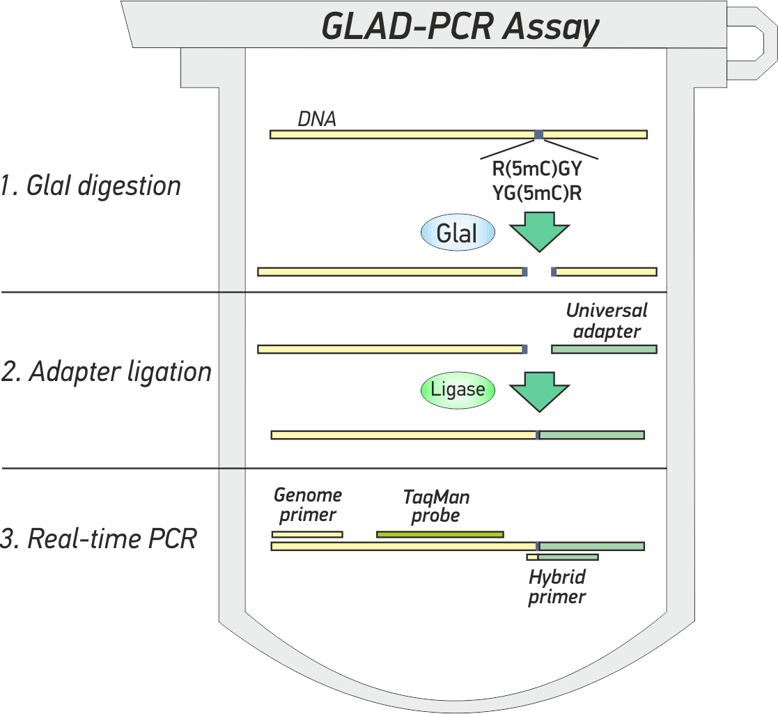 GLAD-PCR-assay scheme